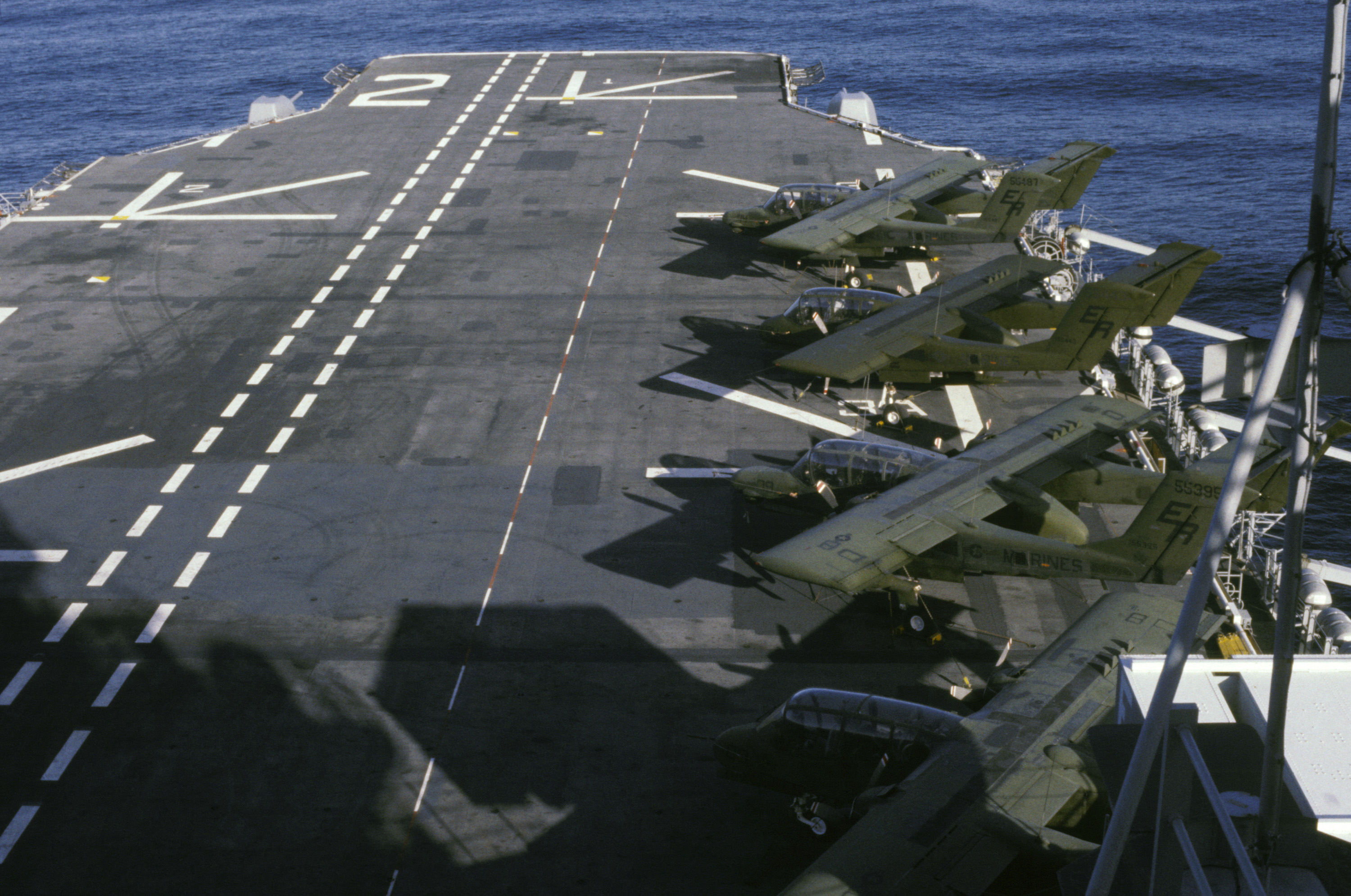 Four U.S. Marine Corps North American OV-10A/D Broncos aboard the amphibious assault ship USS Saipan (LHA-2), in 1987.